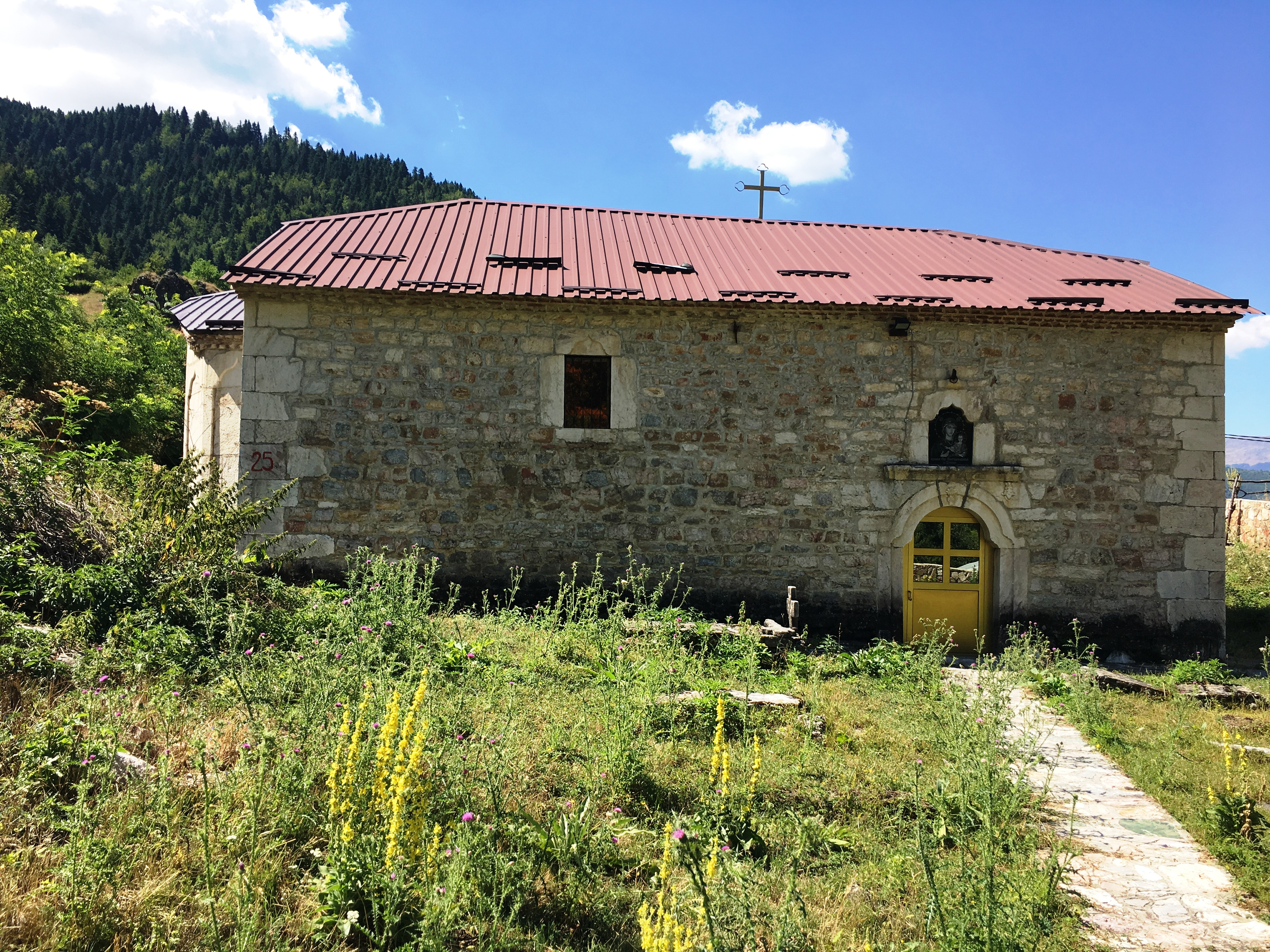 Church of the Theotokos in the village of Sence